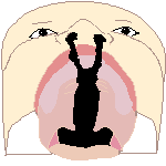 cleft lip and palate both sides seen from bottom